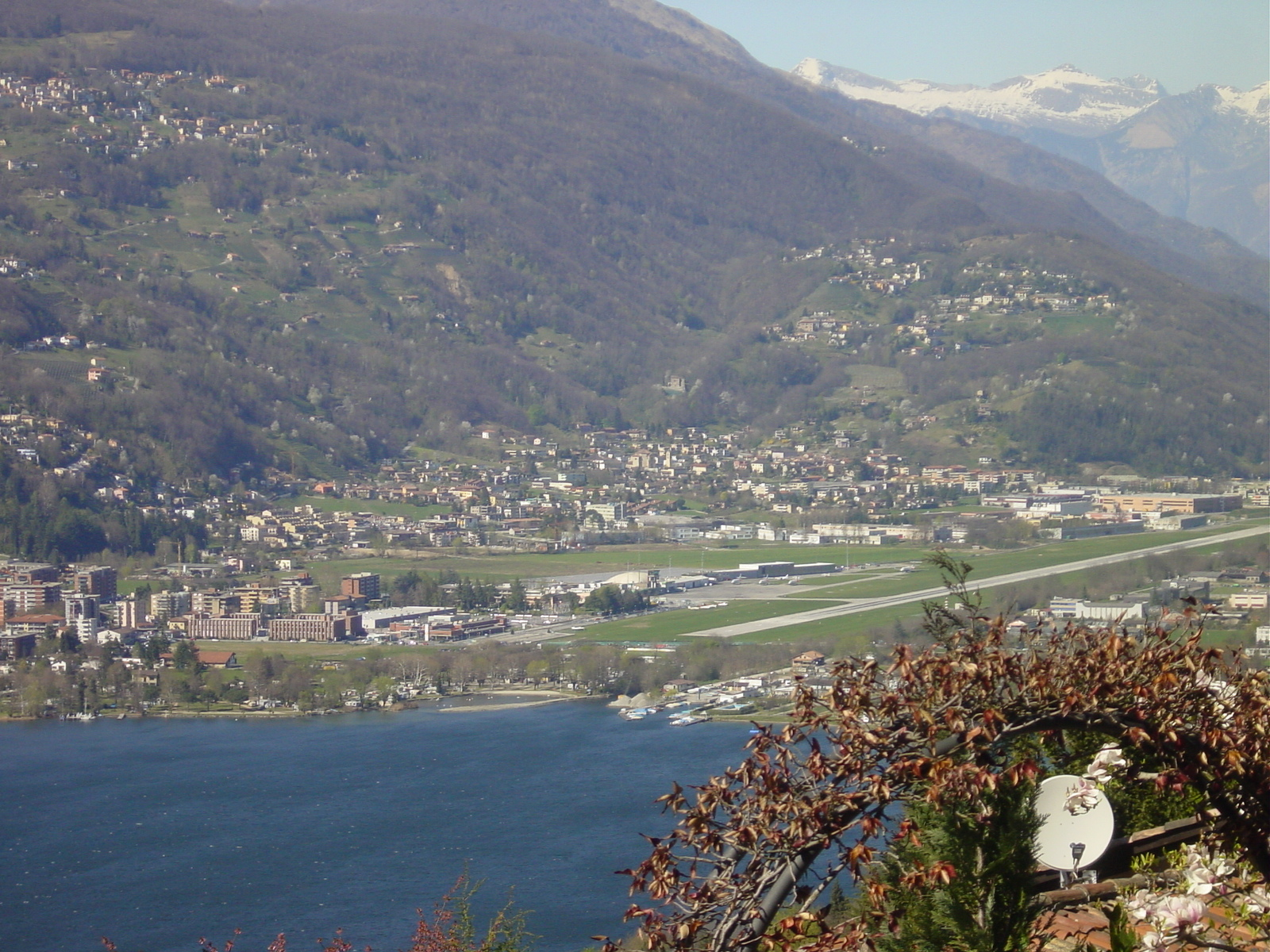 View of Lugano Airport in Agno